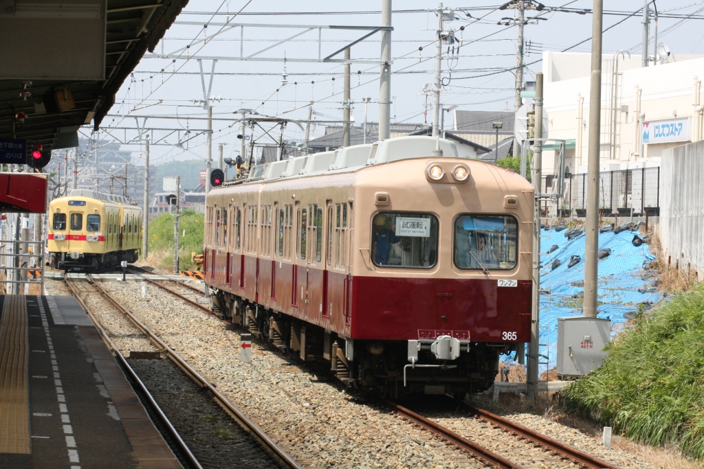 Trains pass each other at Kashii-Kaenmae Station